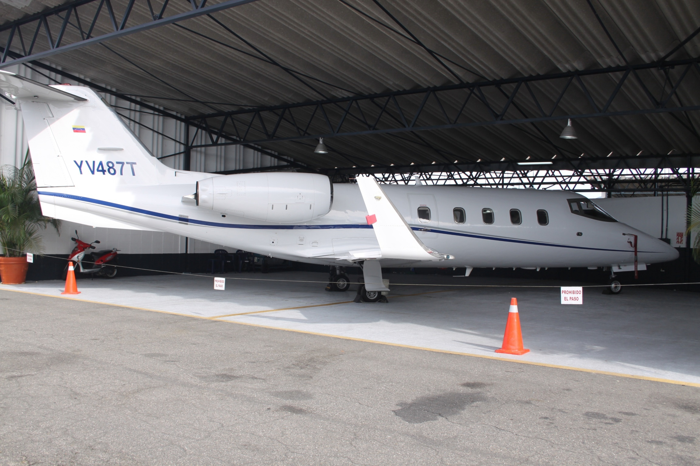 At Charallave Aeropuerto